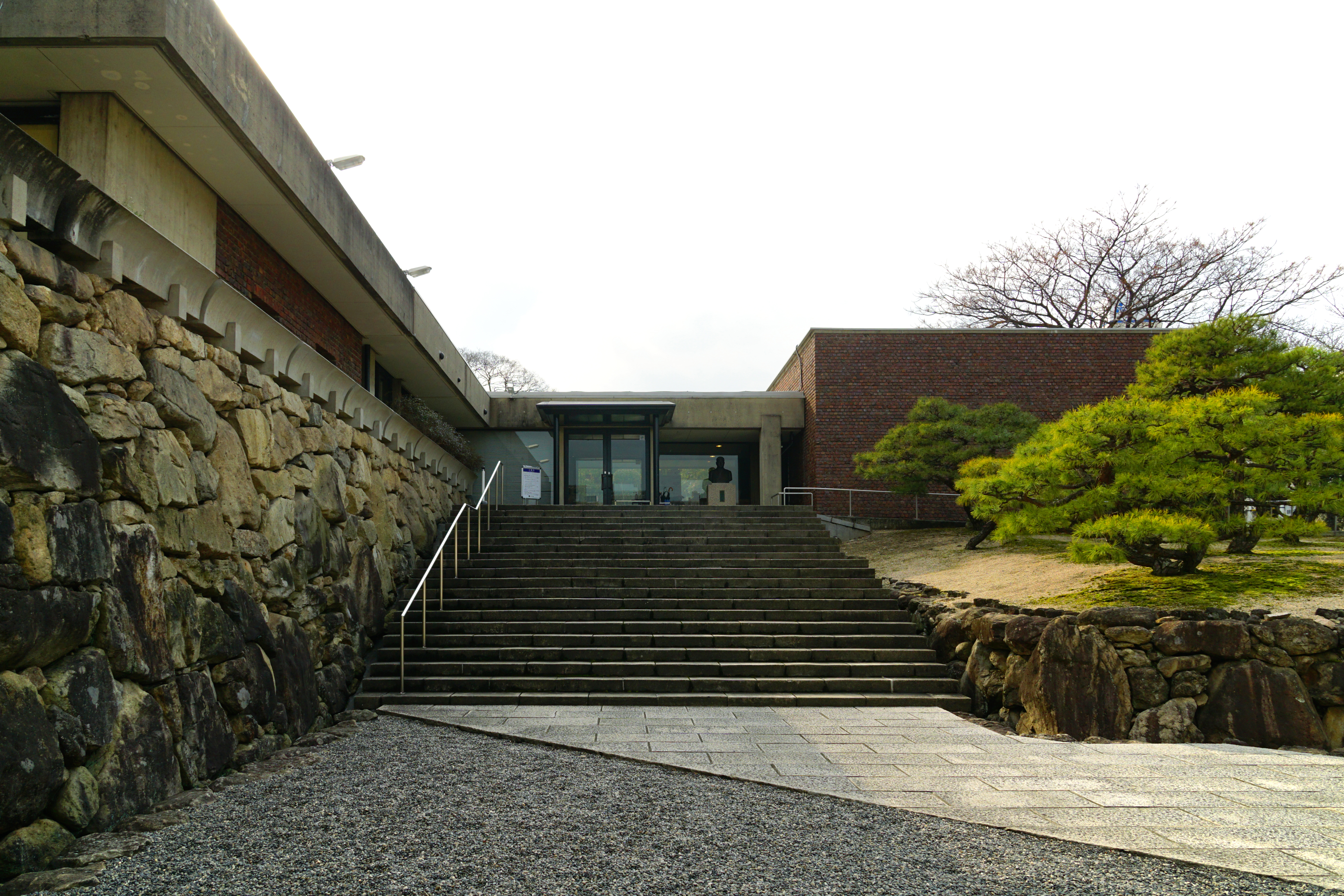 Hayashibara Museum of Art in Okayama, Okayama prefecture, Japan